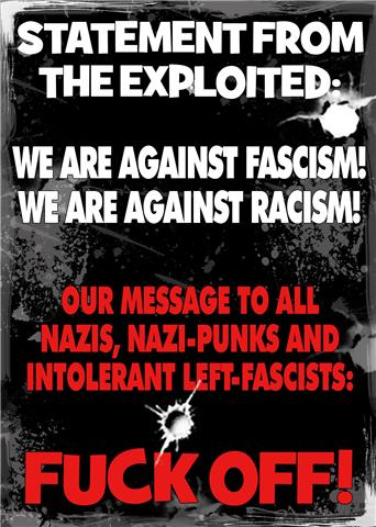 official clarification of the alleged fascism of the band